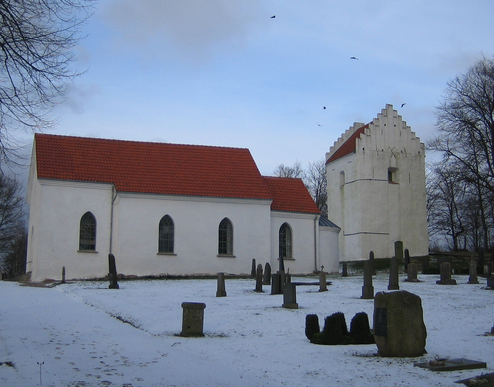 The church of Benestad, Skåne, Sweden